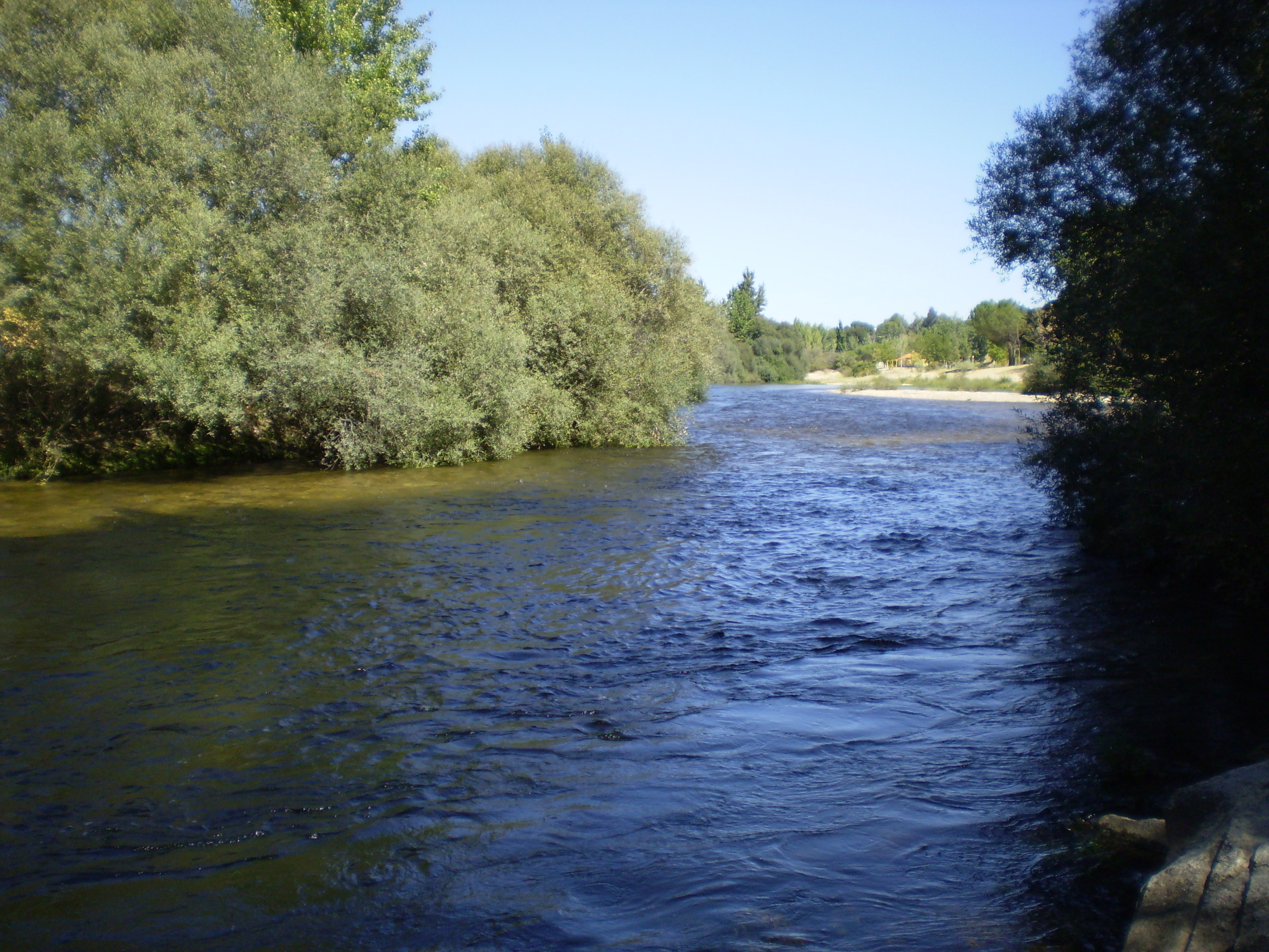 Alberche River. Near to Aldea del Fresno. Community of Madrid